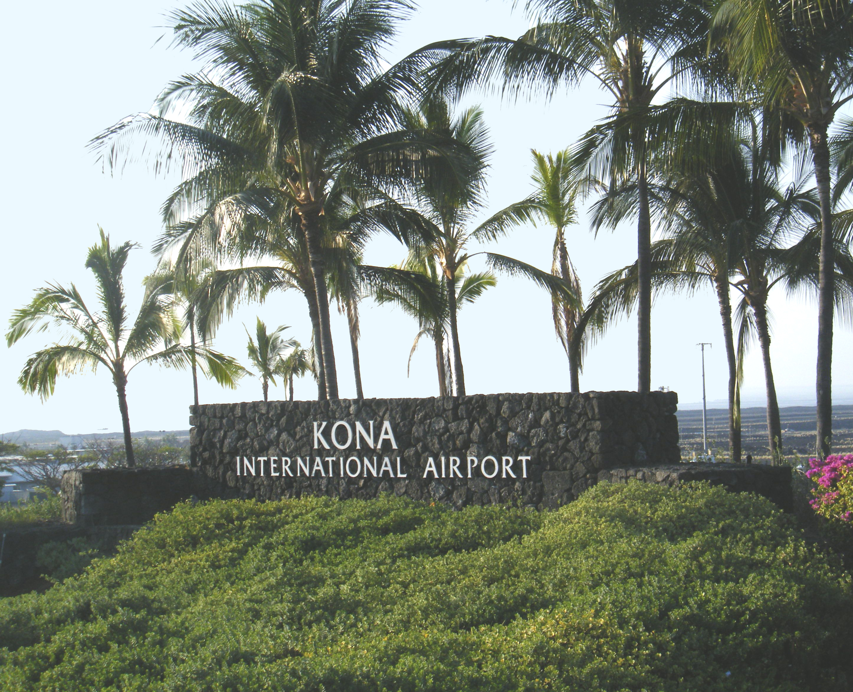 Entrance to Kona International (KOA)